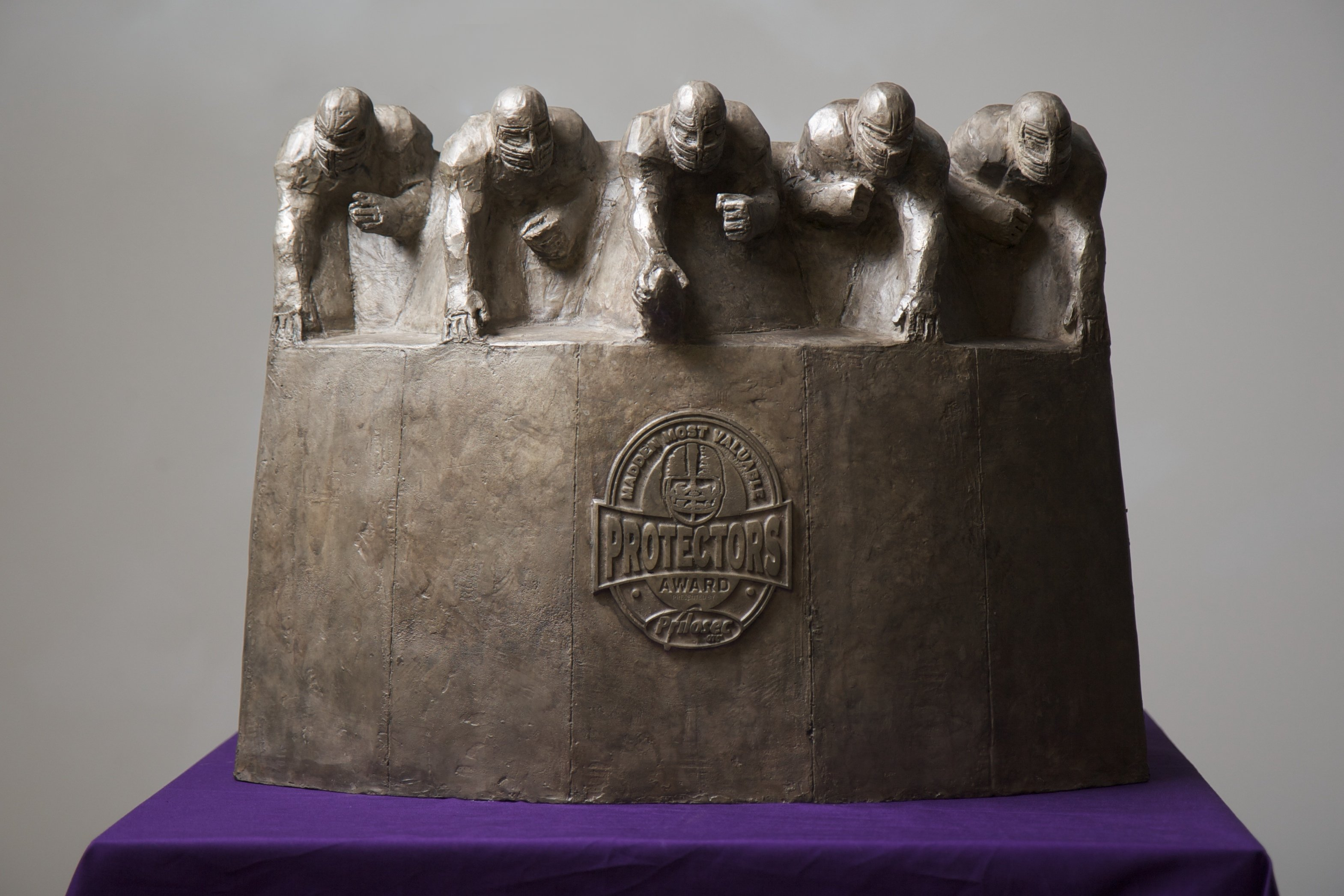 The Madden Most Valuable Protectors Award presented by Prilosec OTC. Artist Tom Tsuchiya. bronze.42cm tall.2010.